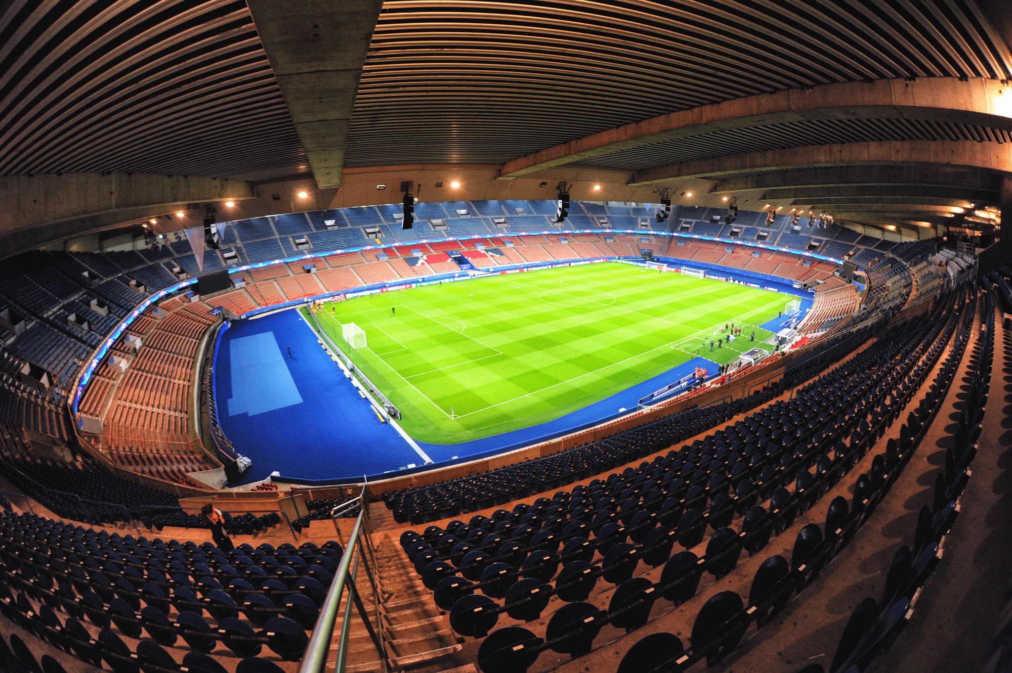 Parc des Princes in Paris (75), France